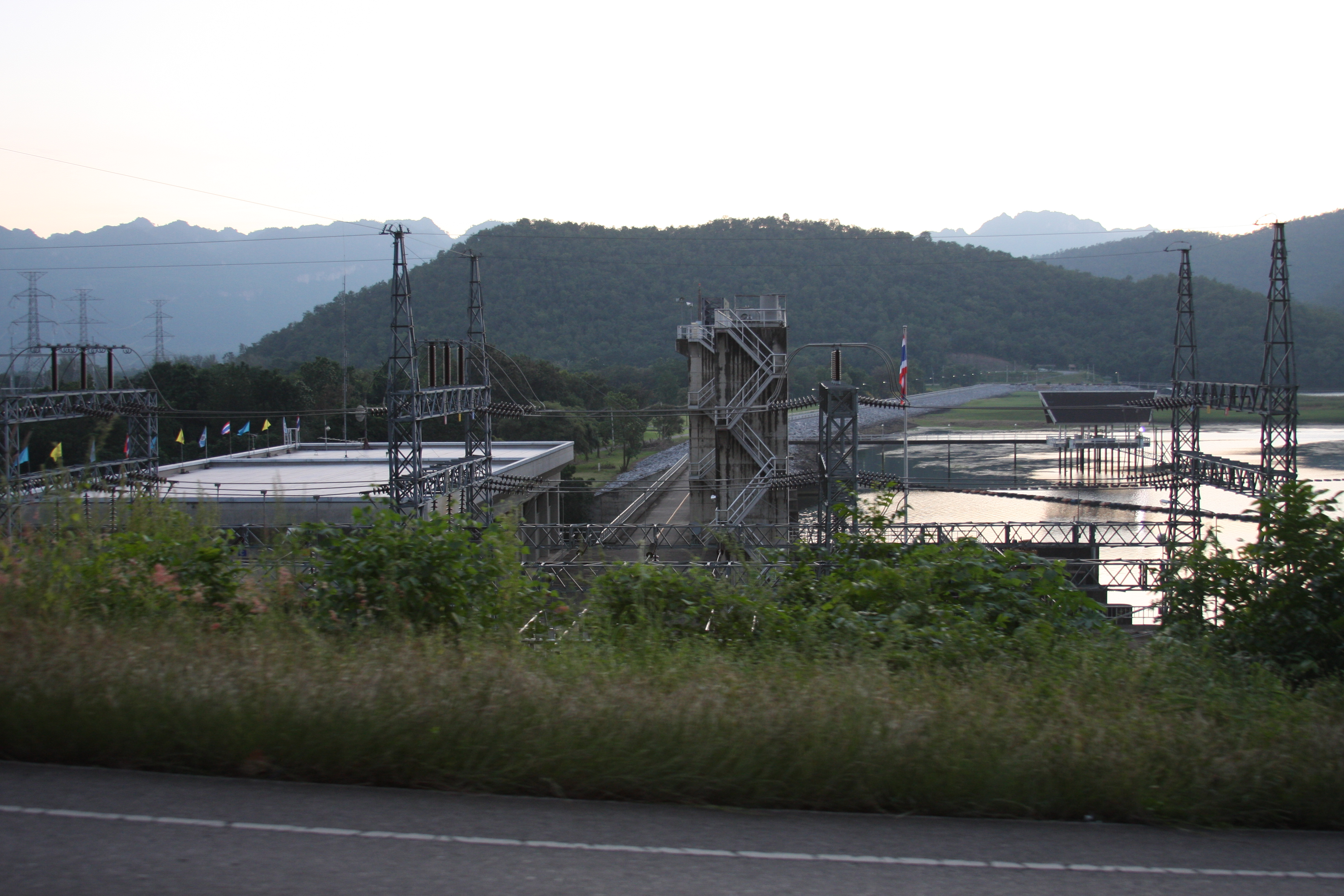 Thung Na Dam in Khwae Yai river, Kanchanaburi province